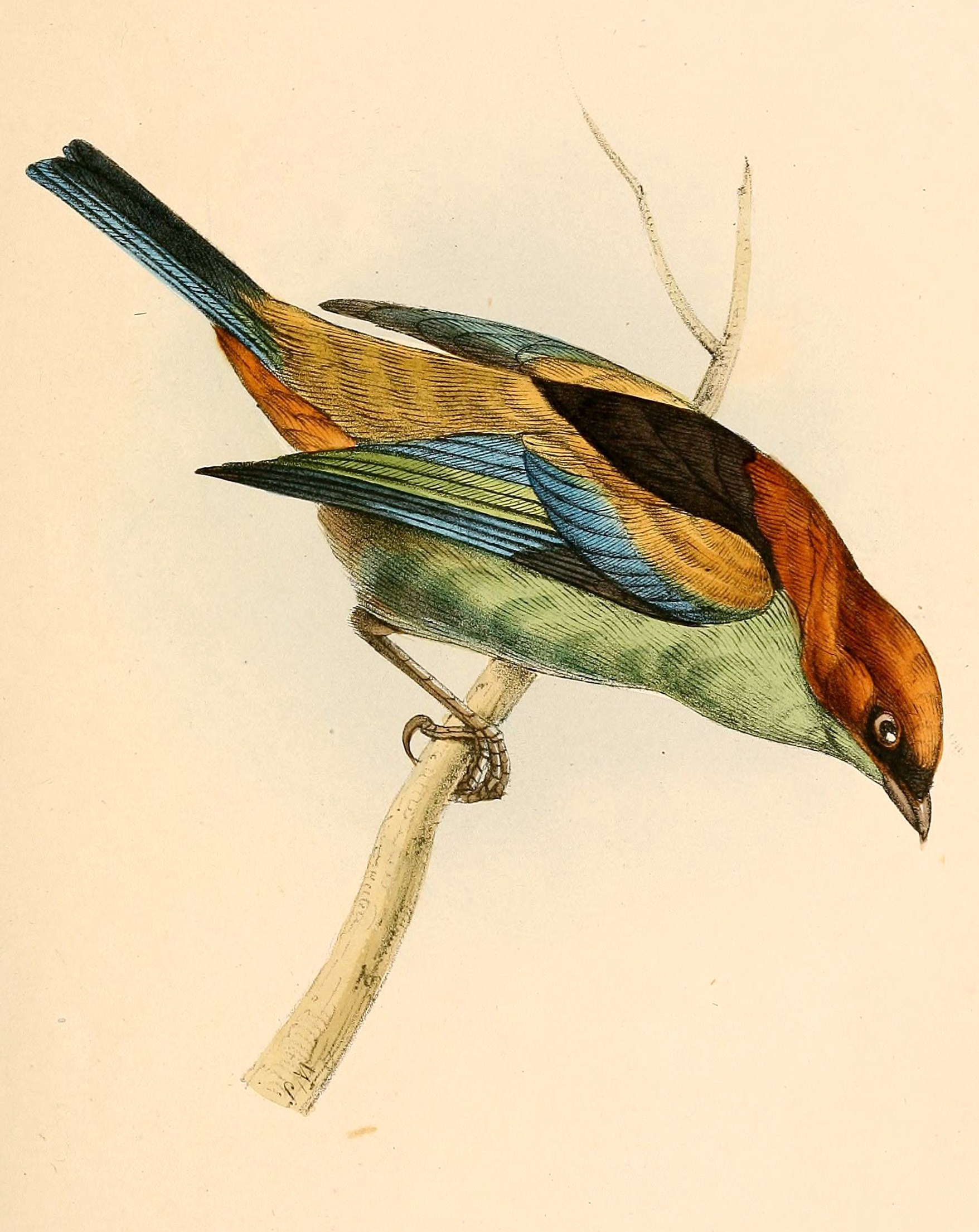 Aglaia melanotus = Tangara peruviana (Black-backed Tanager)